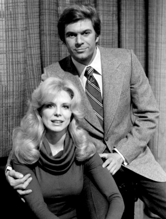 Photo of Susan Harney (Alice Frame) and Gary Carpenter (Ray Gordon) from the daytime drama Another World.